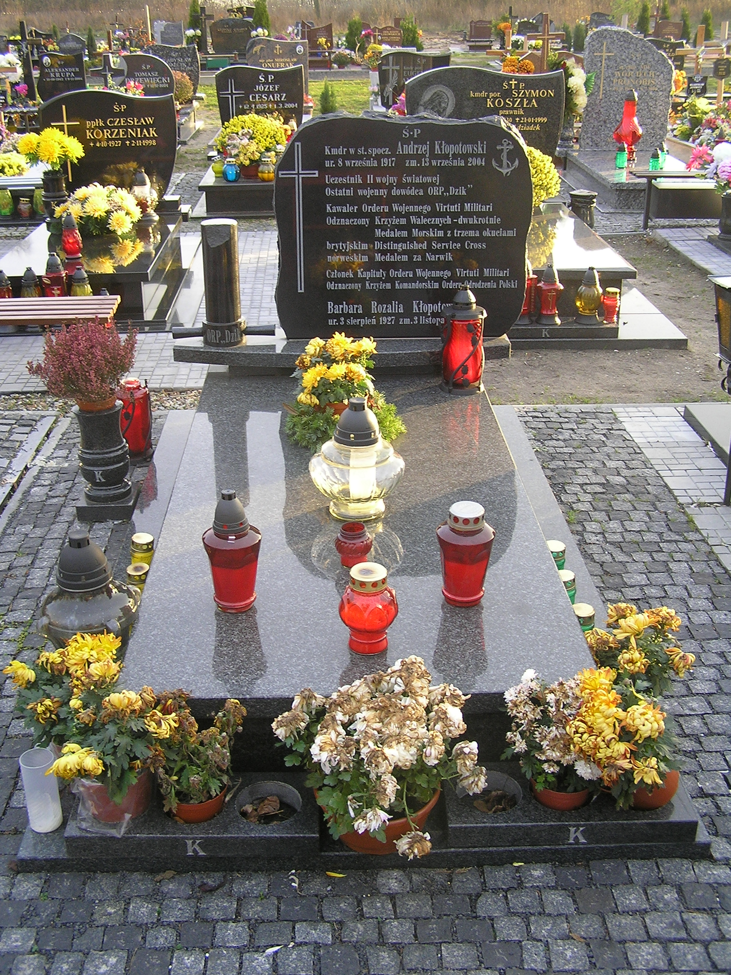 The grave of capt. Andrzej Kłopotowski and his wife on the Polish Navy Cemetery in Gdynia.